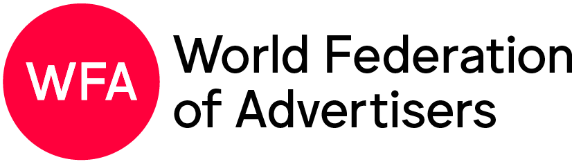 WFA logo as of April 2017